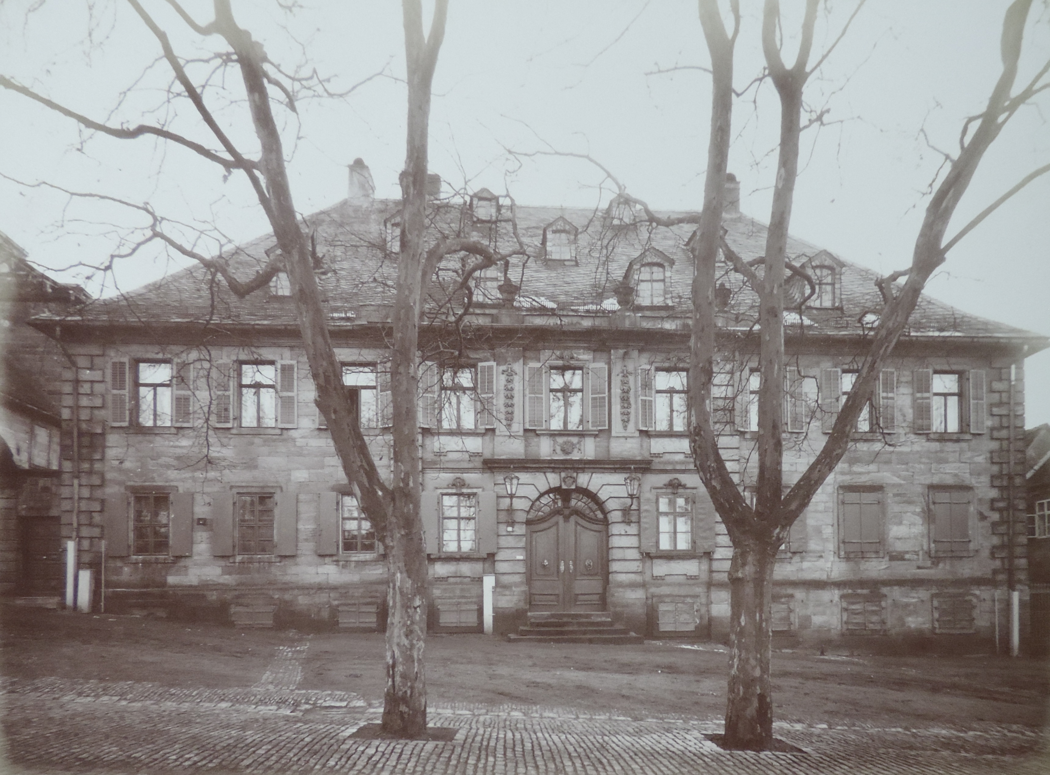 Views and photos of Bayreuth, Germany, gifted to Ferdinand I of Bulgaria to commemorate his 25-year rule. A house in the St. George district.